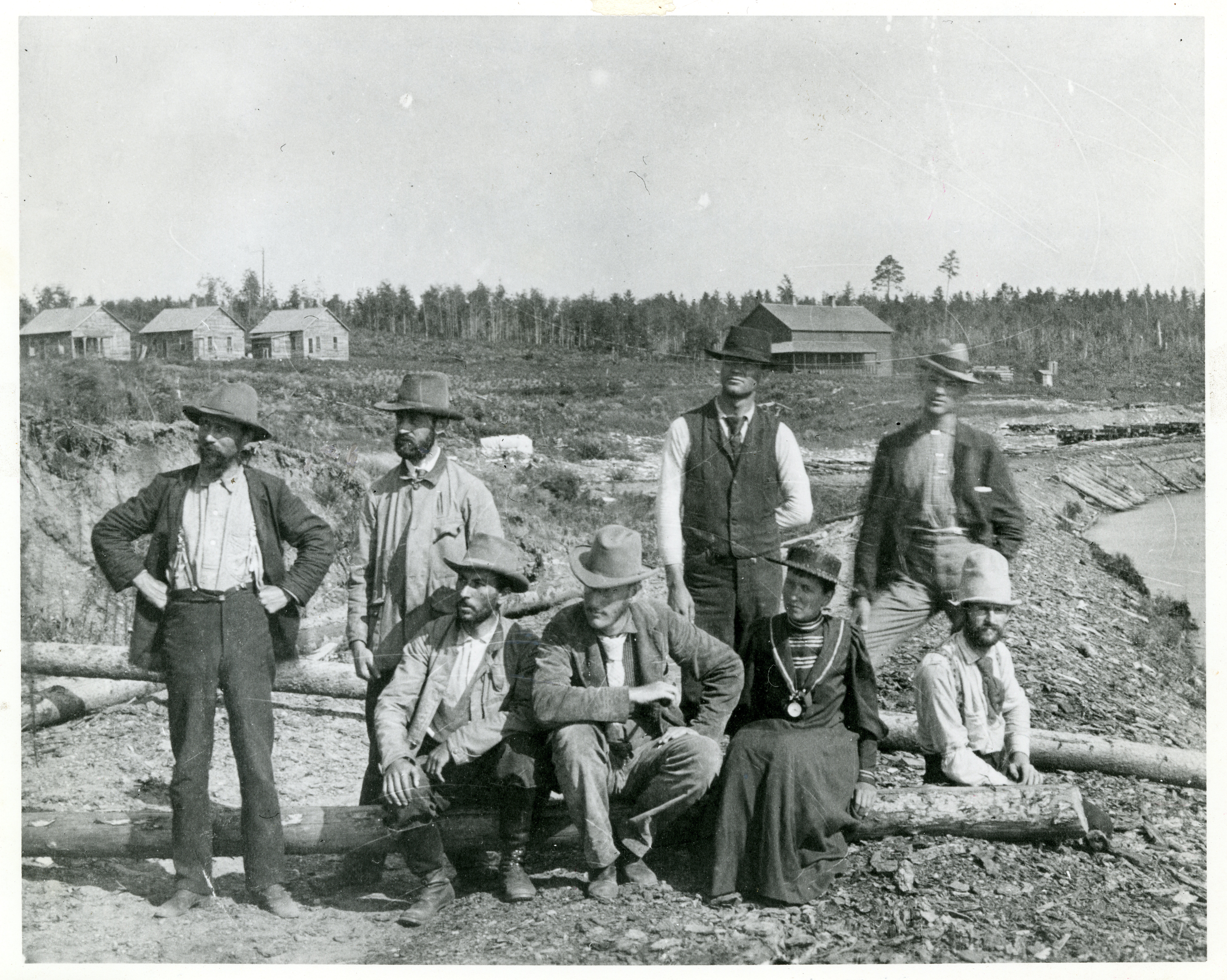 Josephine Tilden with colleagues at the Gull Lake Expedition in the summer of 1893. Seated next to Tilden is botany professor Conway MacMillan, her friend and mentor and later head of the Minnesota Seaside Station who resigned over its closing.